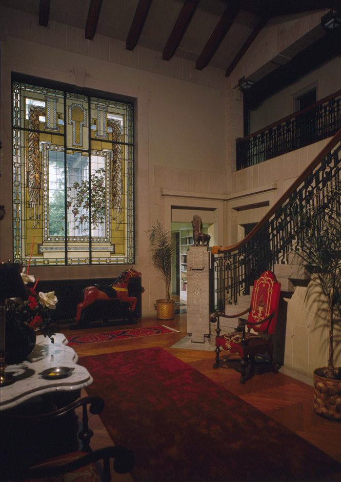 Bernard Corrigan House, Kansas City (Prairie Style)